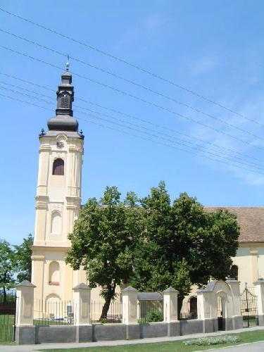 Lacarak_orthodox